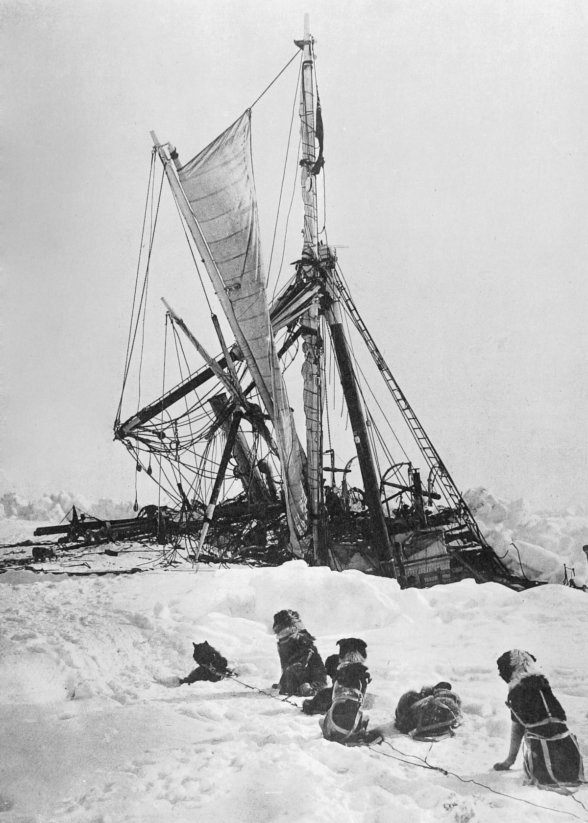 Endurance final sinking in Antarctica